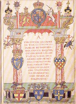 The frontpiece of the record of the heraldic visitation of Ulster King of Arms, Daniel Molyneux. This was undertaken in the city of Dublin in February 1607. On the right hand column are shown the arms of Arthur Chichester, 1st Baron Chichester of Belfast (1563-1625), Lord Deputy of Ireland from 1605 to 1616.